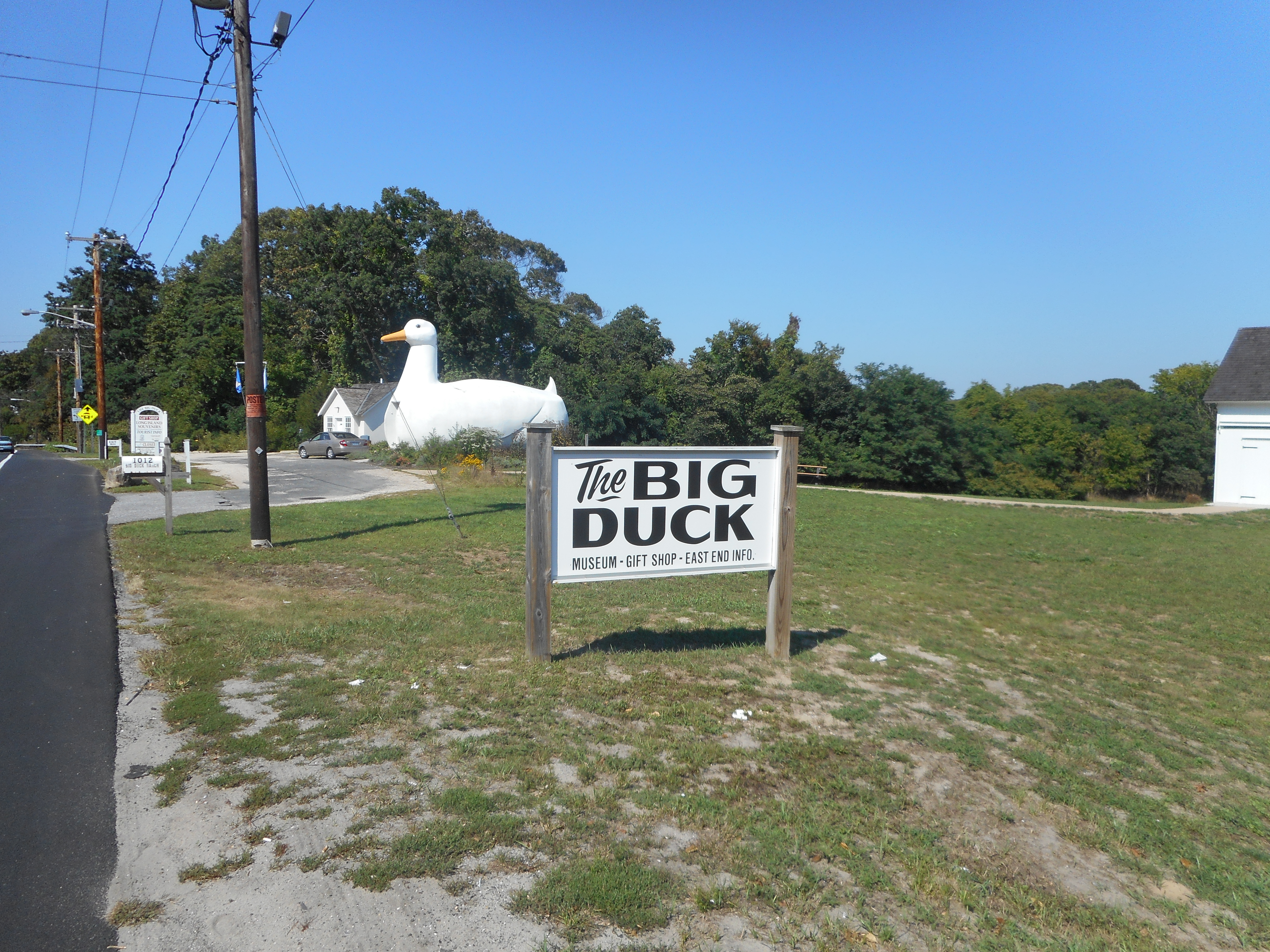 Sign for the Big Duck Ranch on NY 24 in Flanders, New York.